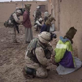 Soldiers detain suspected anti-coalition forces in Operation Bayonet Lightning.